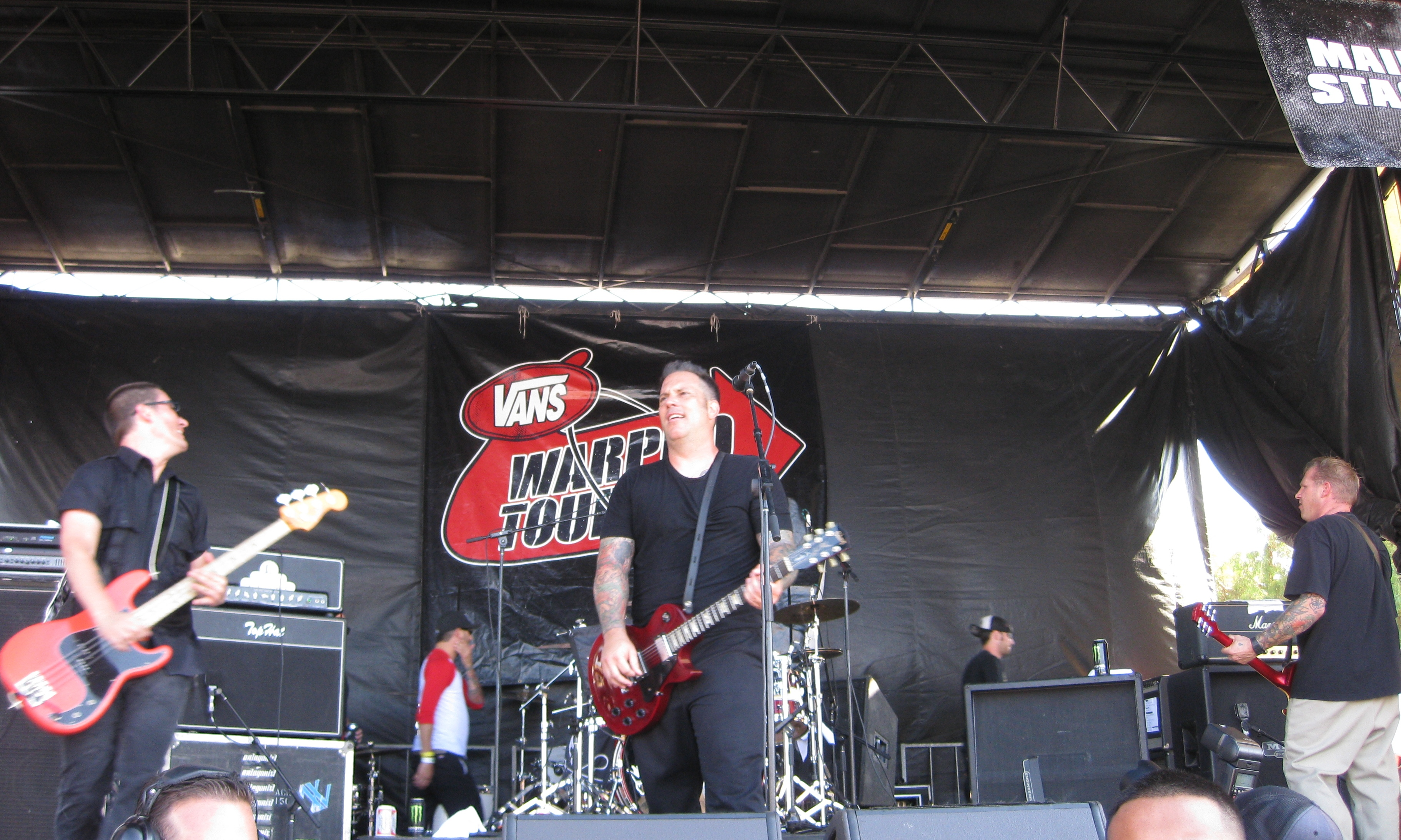 Face to Face performing on the Warped Tour at the Cricket Wireless Amphitheatre in Chula Vista, California on August 10, 2010. Left to right: Scott Shiflett, Trever Keith, and Chad Yaro.